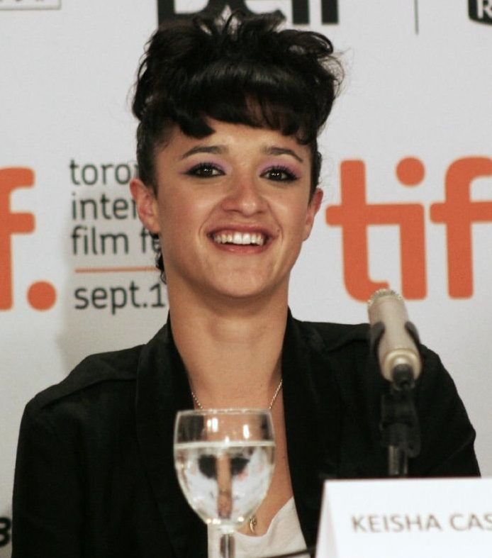 New Zealand actress Keisha Castle-Hughes at the press conference for The Vintner's Luck